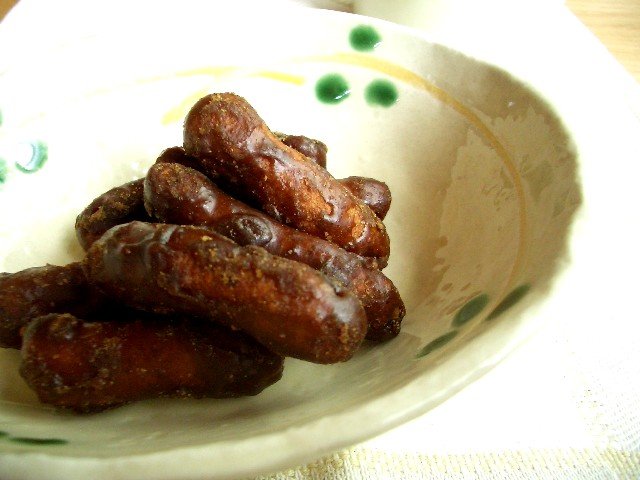 Karinto is Japanese fried-dough cookies.